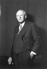 Pat Harrison.